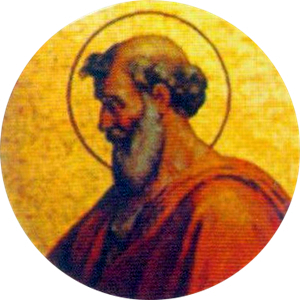 Portait of Pope Boniface I in the Basilica of Saint Paul Outside the Walls, Rome